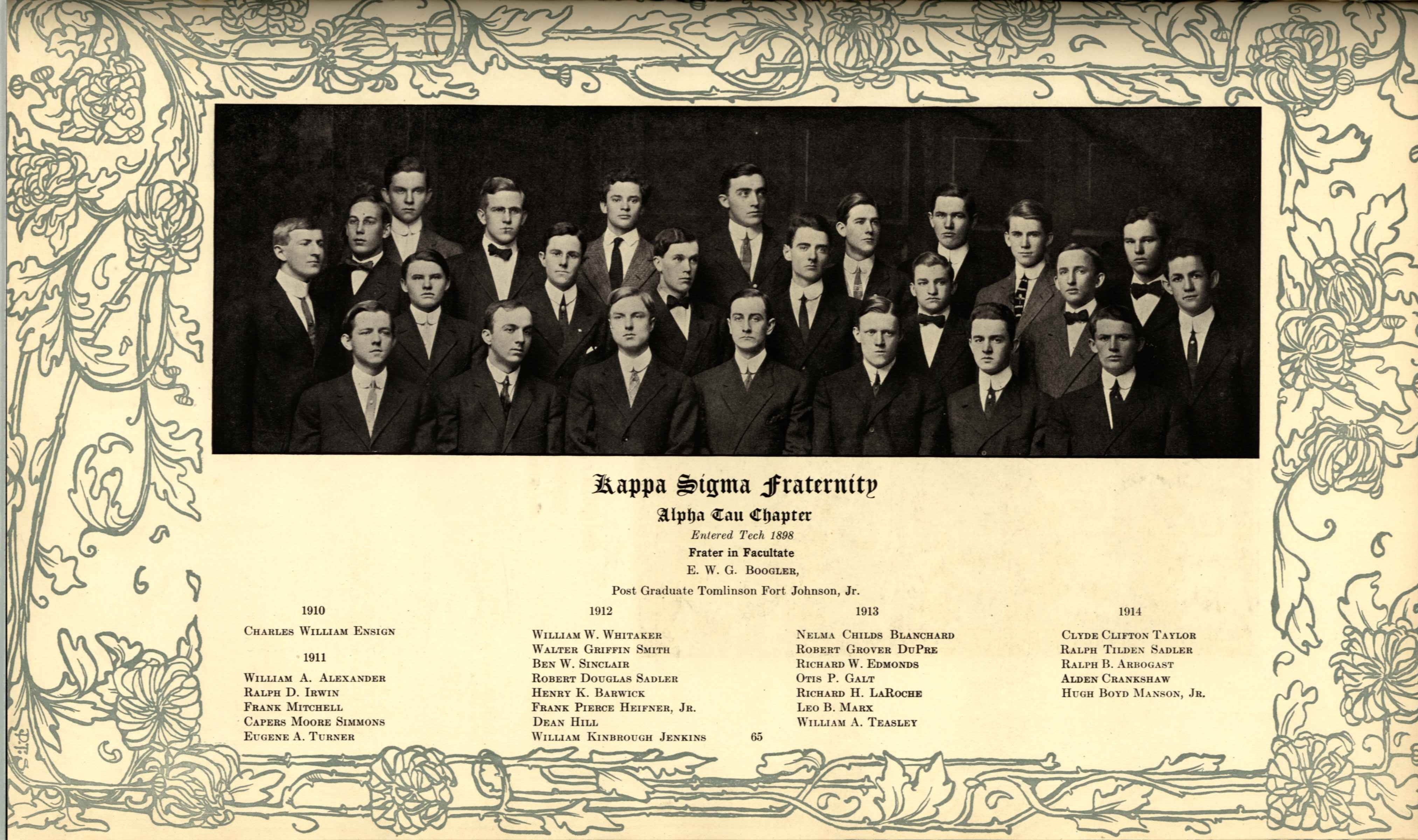 A page from volume III of the Blueprint, the official yearbook of the Georgia Institute of Technology